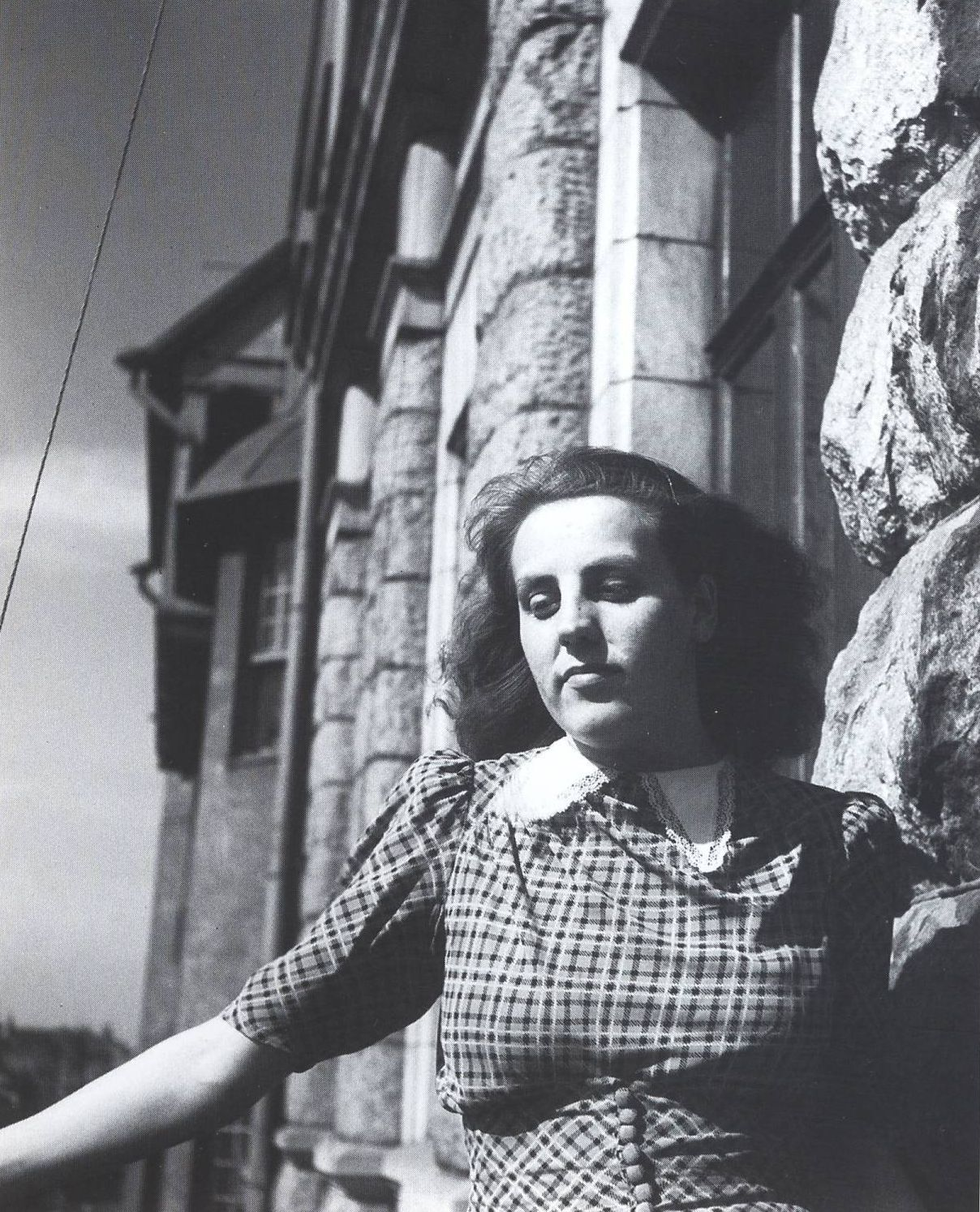 Aune Ala-Tuuhonen finnish textwriter